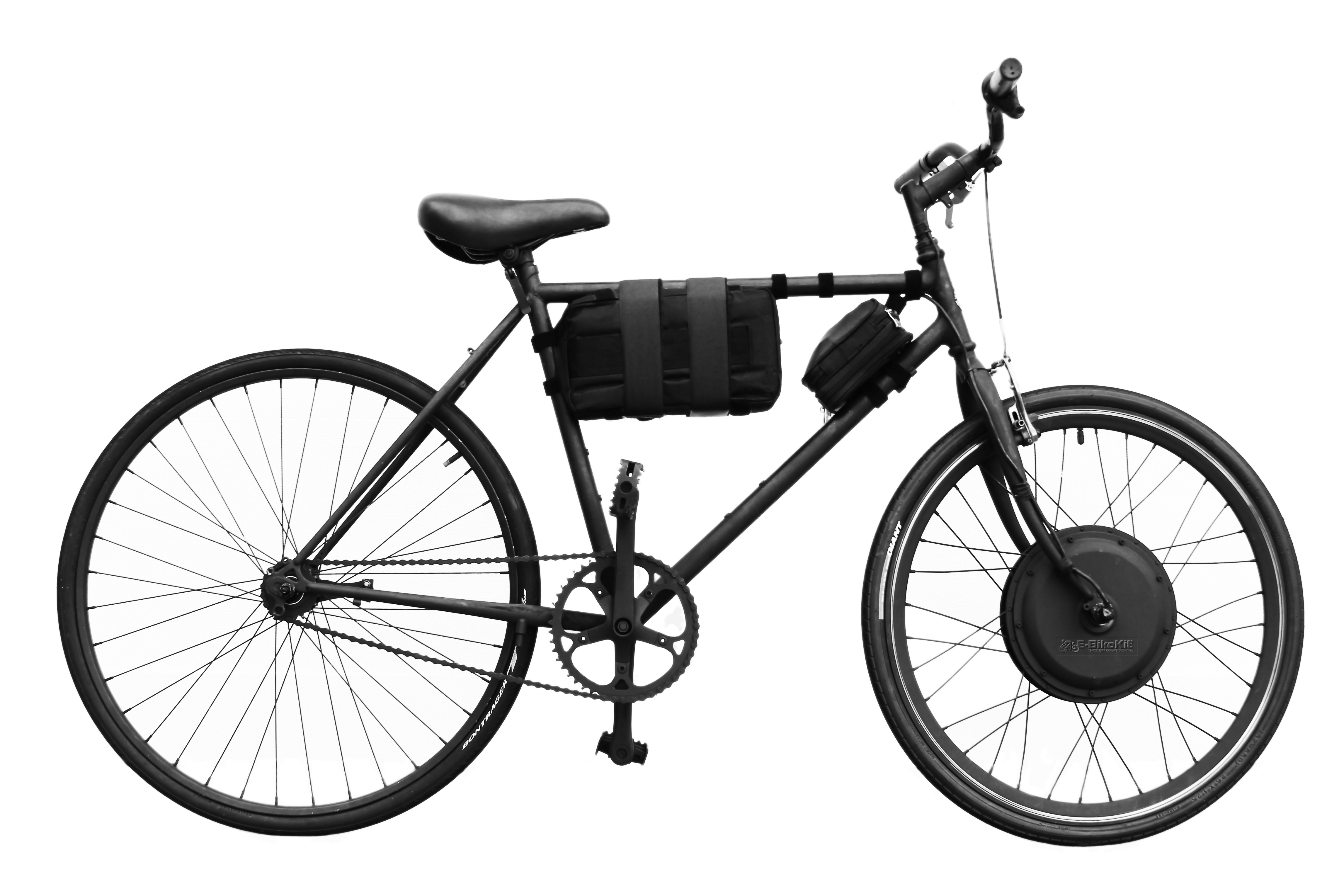 An electric bicycle converted from a mountain bike. The hub motor is integrated into the front wheel. The battery and speed controller are located in the large and smaller canvas packs, respectively.